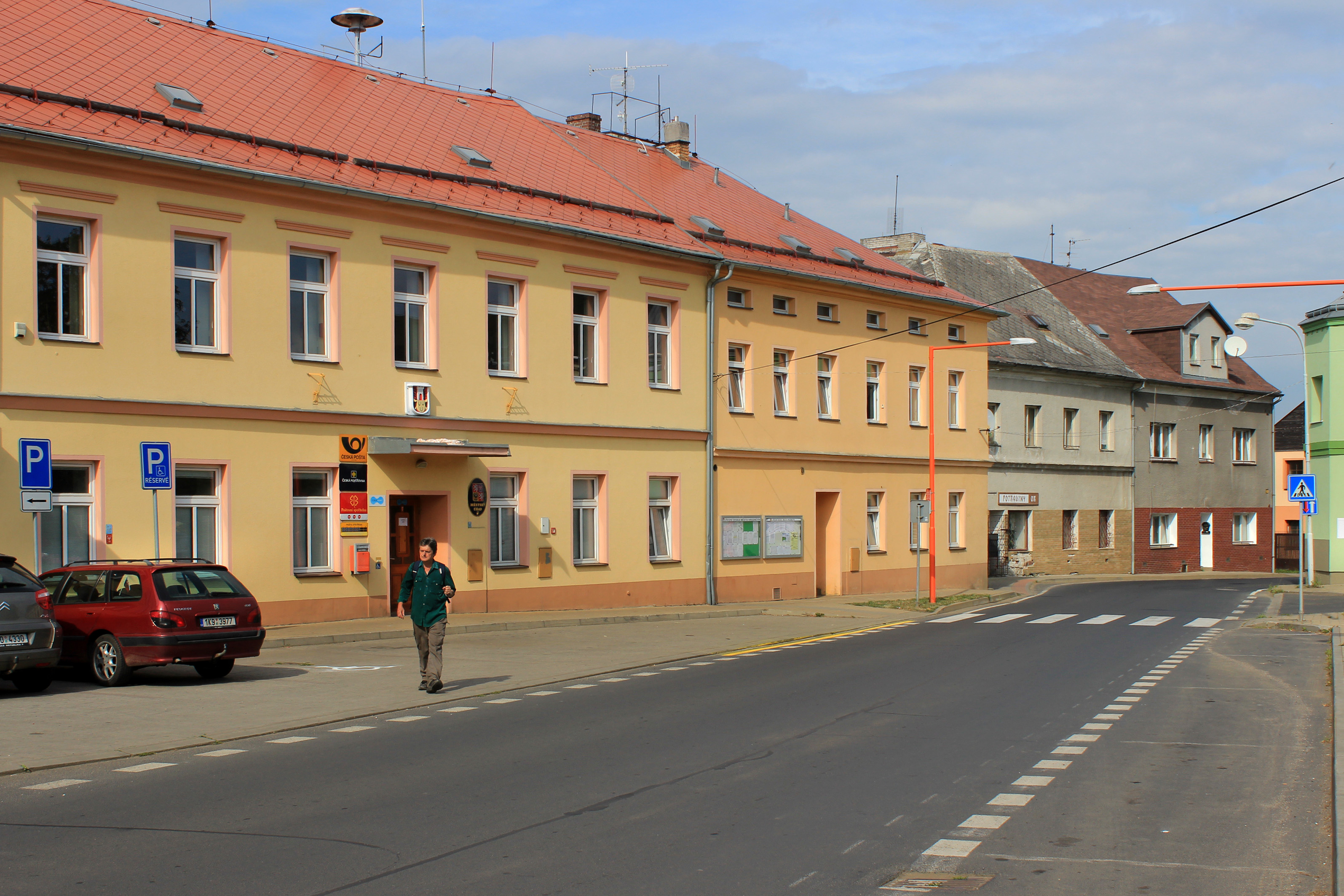 Municipal office and post office in Hroznětín, Czech Republic.